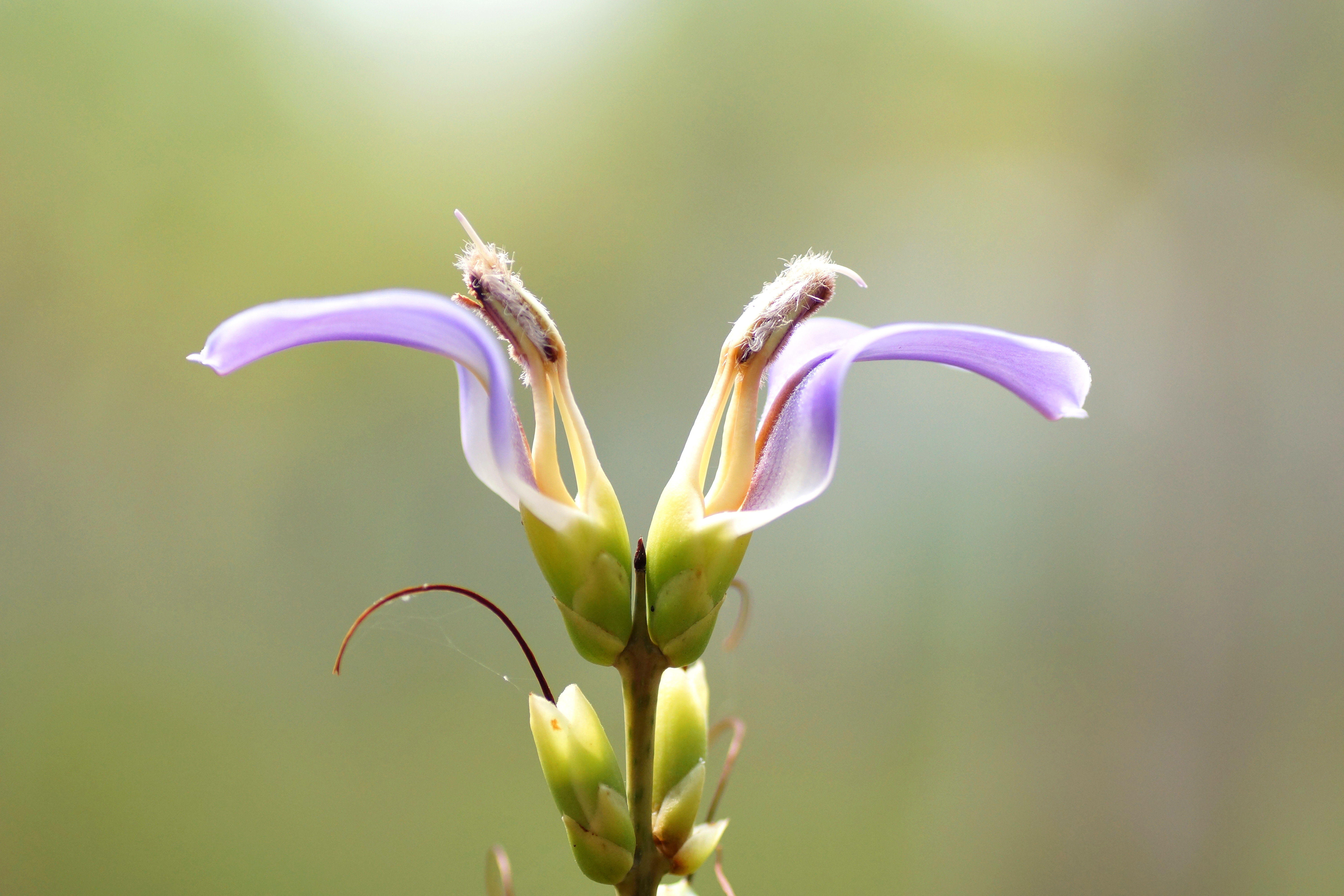 Acanthus ilicifolius